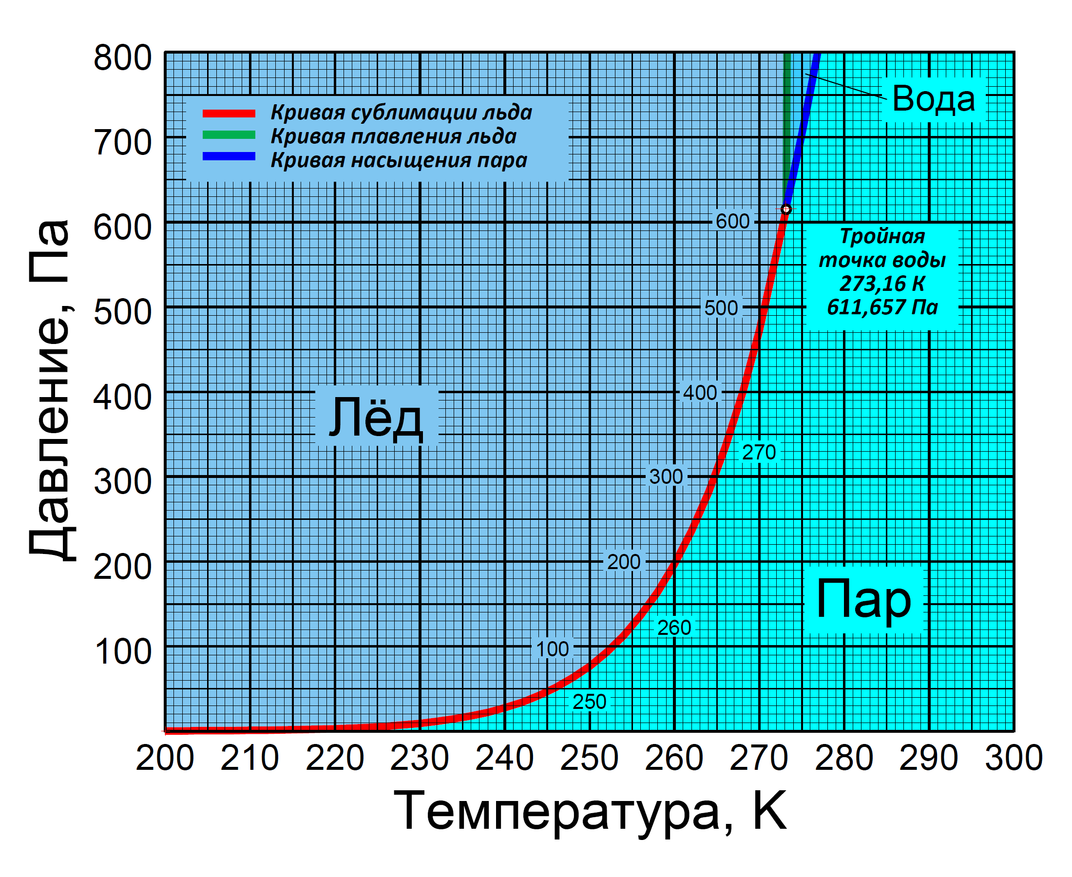 Ice Sublimation Line (Fragment of Water Phase Diagram, Linear Scale)